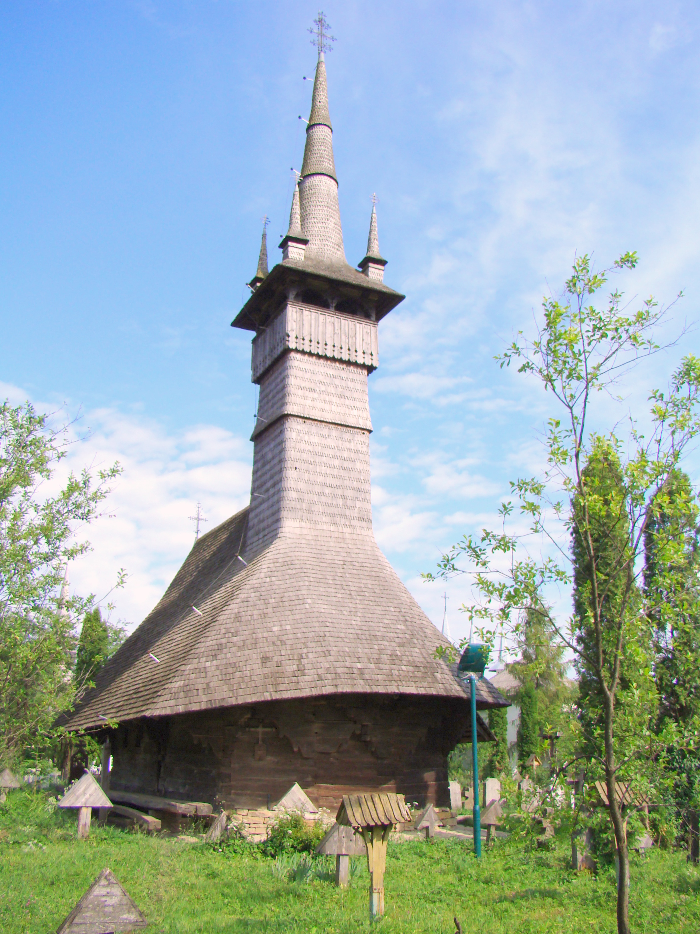 Wooden church Sf. Arhangheli in Rogoz